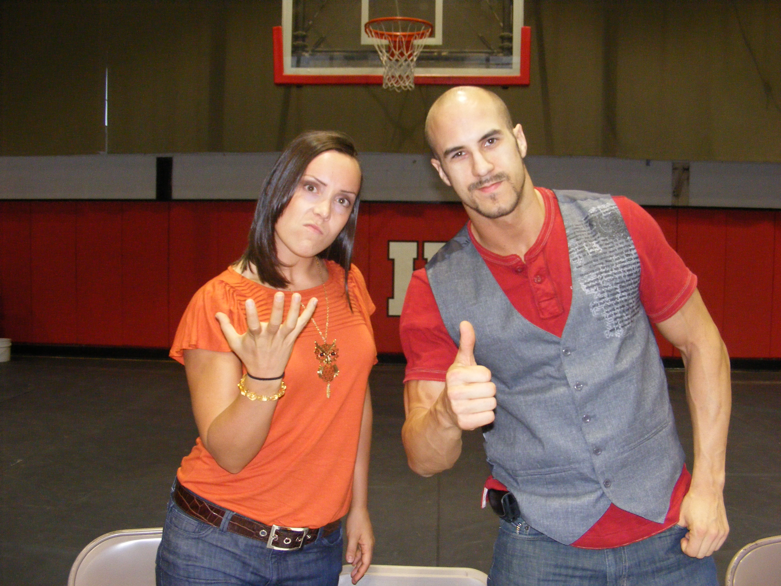 Professional wrestlers Sara Del Rey (left) and Claudio Castagnoli posing at an APW show in Rutland, Vermont on May 16, 2009.